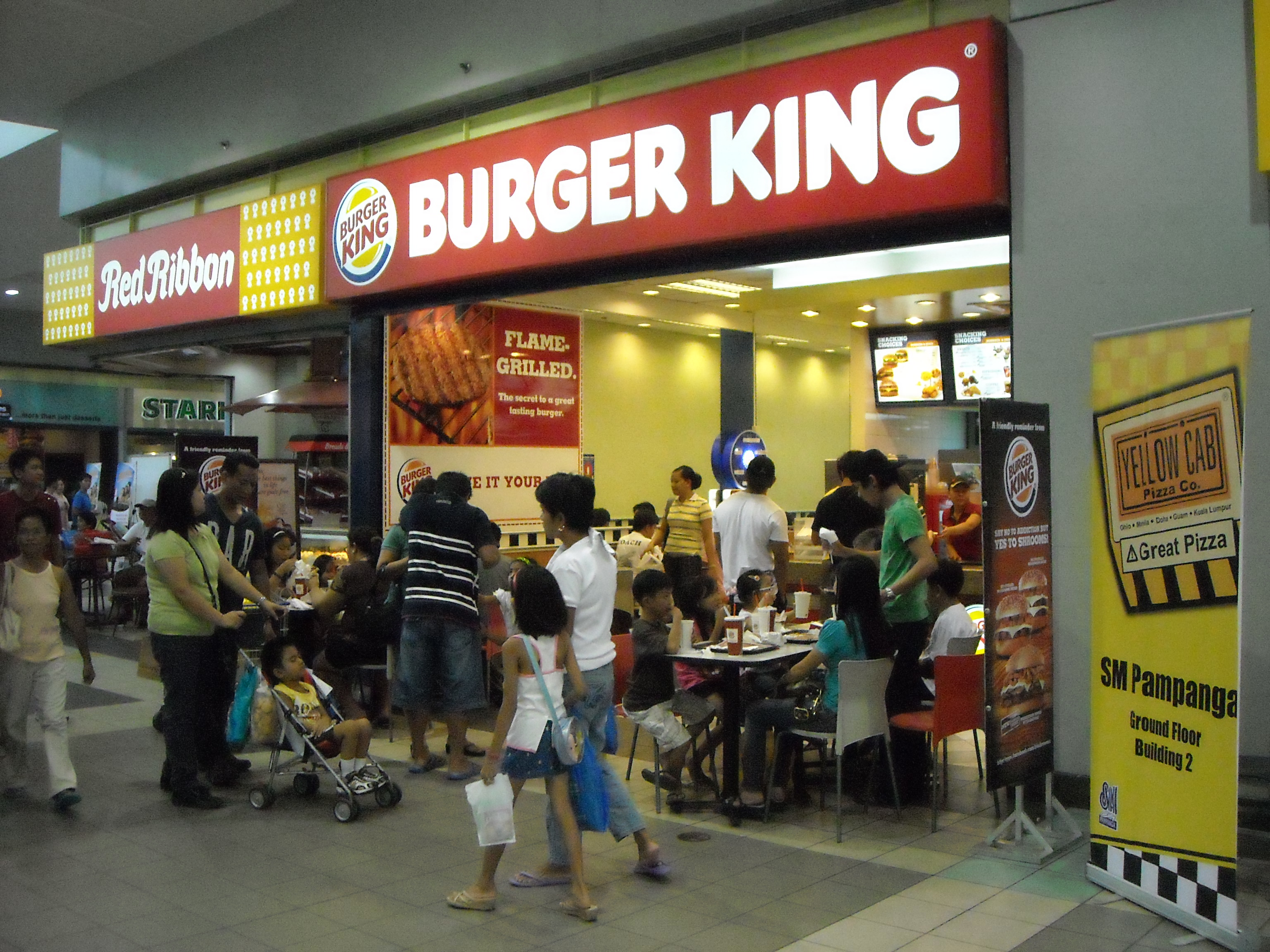 A Burger King outlet in SM Pampanga.